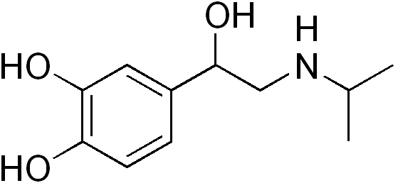 Chemical Structure of Isoproterenol, Isoprenaline